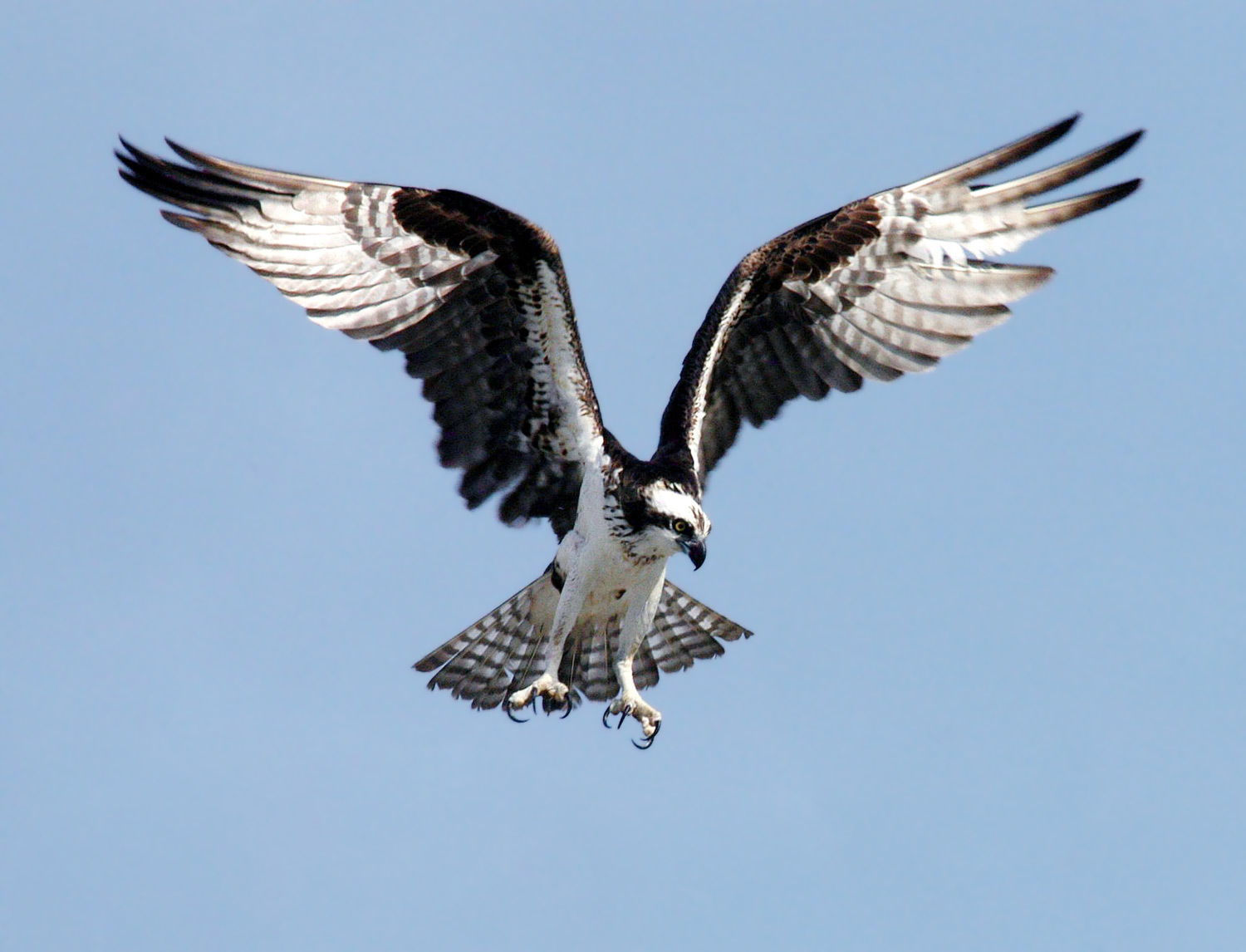 An Osprey preparing to dive at Kennedy Space Center, Florida, USA. It stares intently at prey as it extends its talons. Osprey nests are found throughout the Kennedy Space Center and nearby Merritt Island National Wildlife Refuge.